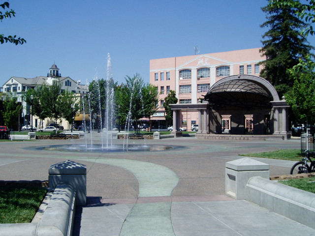 Home of Bidwell Park and California State University Chico